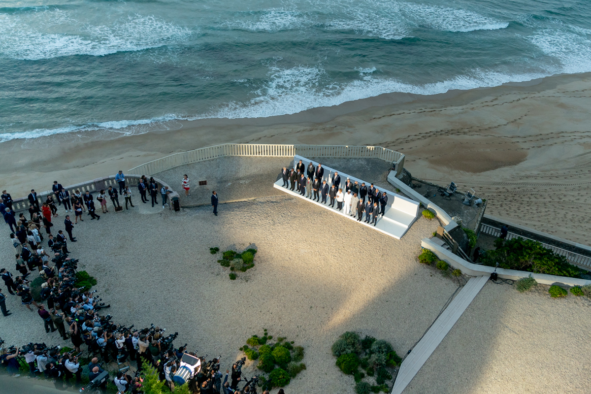 President Donald J. Trump joins G7 Leaders and Extended G7 members as they pose for the “family photo” at the G7 Extended Partners Program Sunday evening, Aug. 25, 2019, at the Hotel du Palais Biarritz, site of the G7 Summit in Biarritz, France. (Official White House Photo by Shealah Craighead)